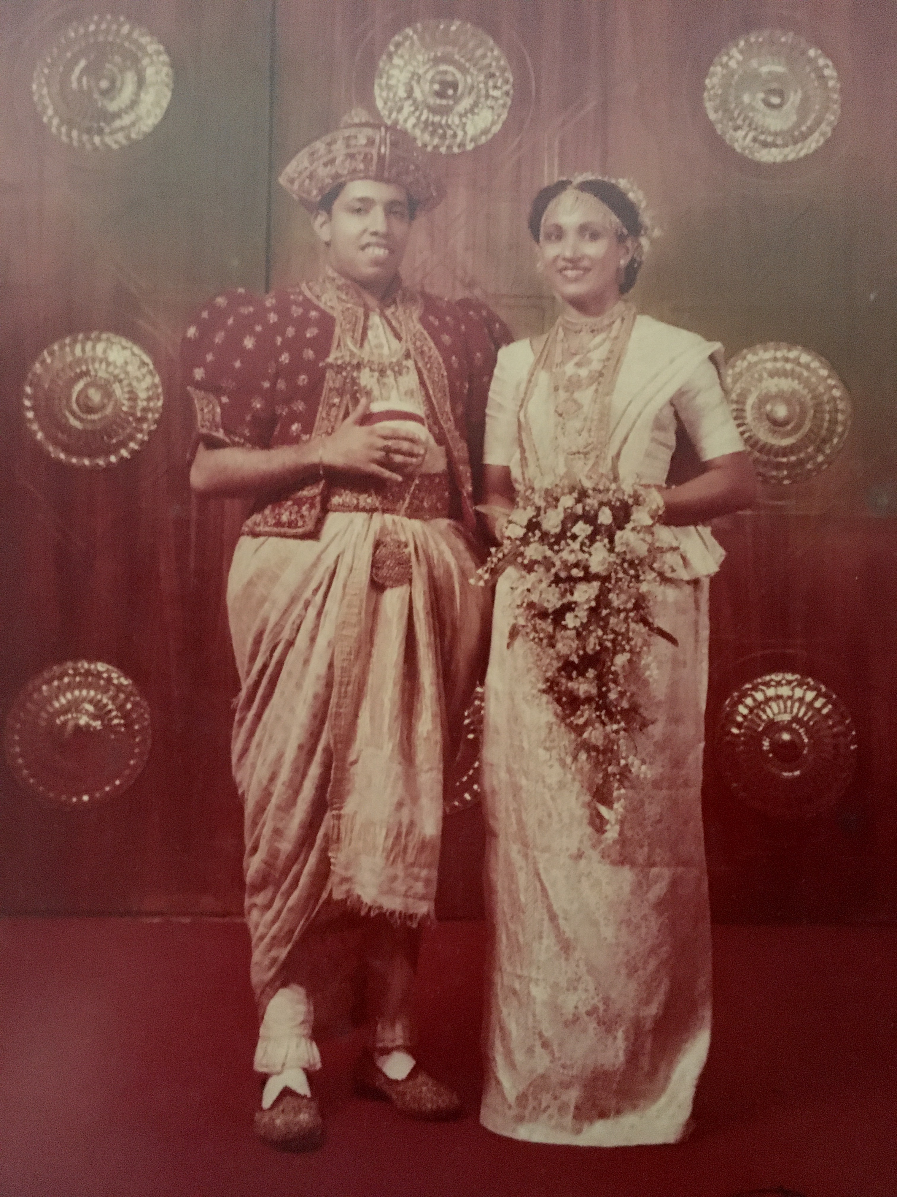 Photograph of A & D Wijeyeratne